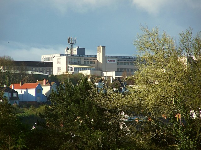 North Devon College now know as Petroc